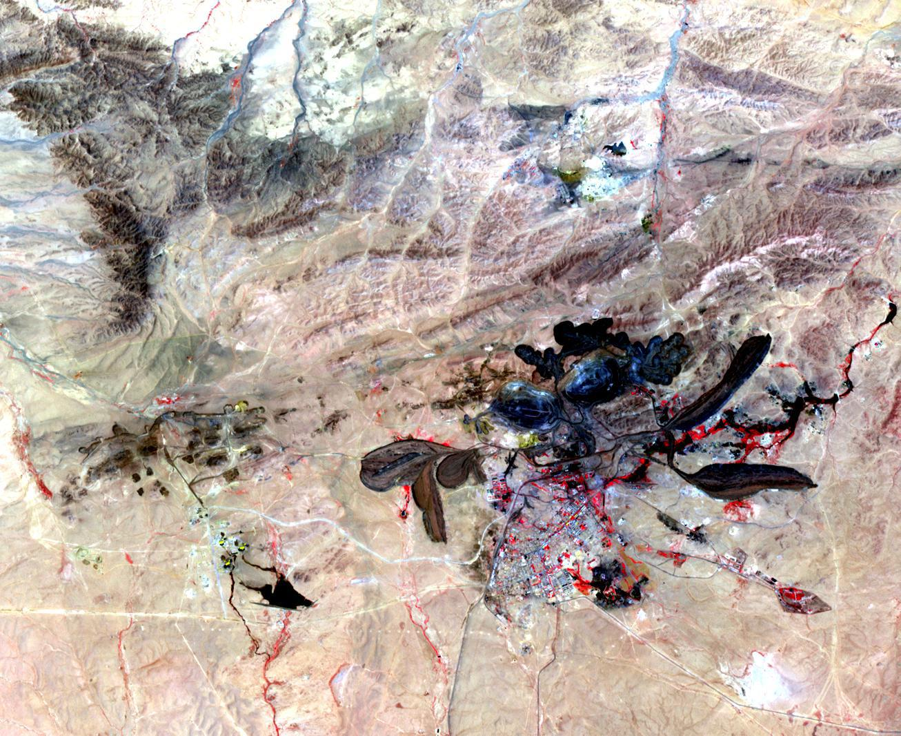 The mine in Baiyun Ebo, Inner Mongolia, China, which is the site of almost half the world's rare earth production. This image was taken by the Advanced Spaceborne Thermal Emission and Reflection Radiometer (ASTER) on board the NASA research satellite Terra. The image covers an area of 15 × 19 km.